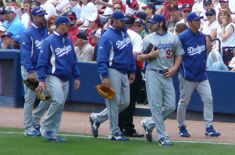 User:Chrisjnelson agreed to license this image of Dodgers_Pitchers.jpg under a free attribution license. Any use of this image must be attributed; this means that Photo by :en:User:Chrisjnelson|Chris Nelson should be in the picture caption. 23:50, 20 April 2008 . . Chrisjnelson . . 748×494 (405 KB)